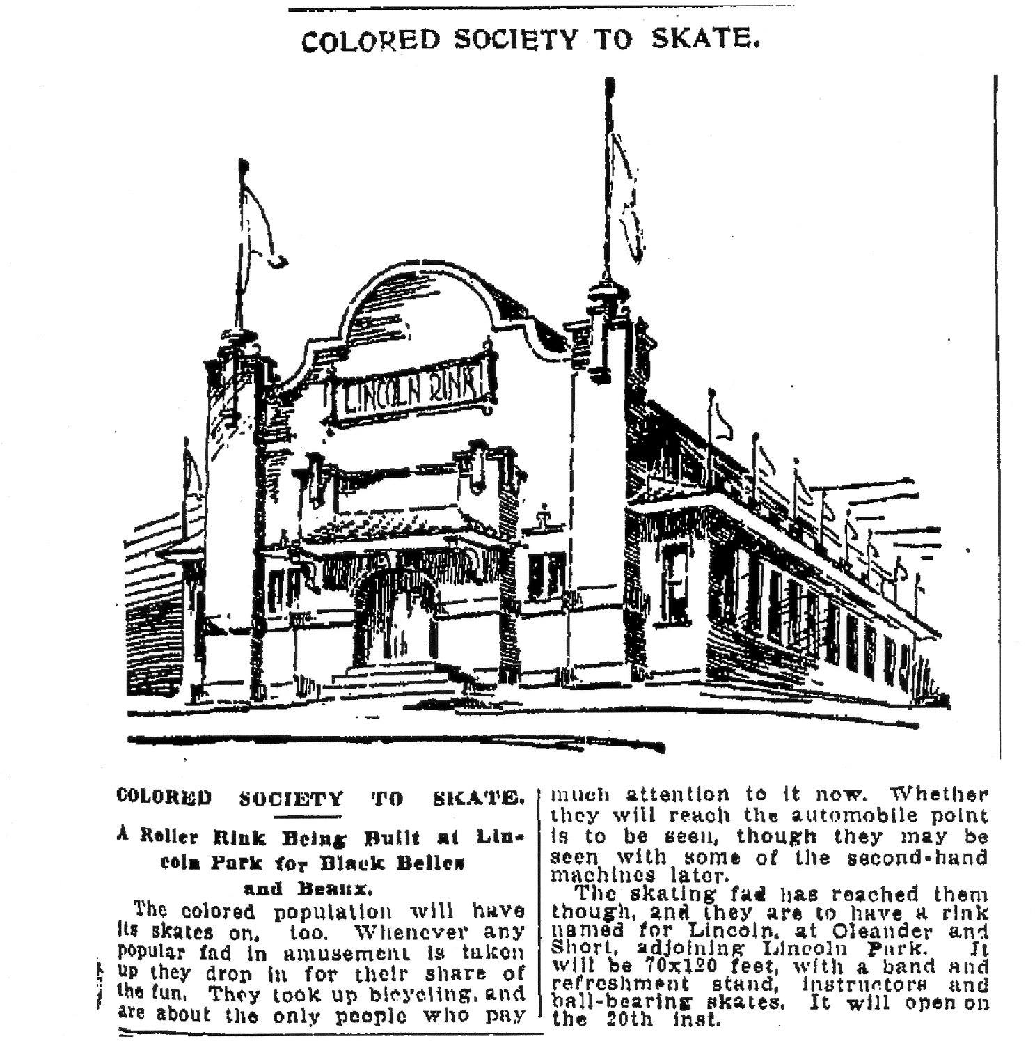 Illustration of new skating rink at Lincoln Park, New Orleans, for "colored" patrons during racial segregation with rather condescending description from "white" newspaper. Note: Buddy Bolden played here regularly on Sunday nights during the final year of his professional career.